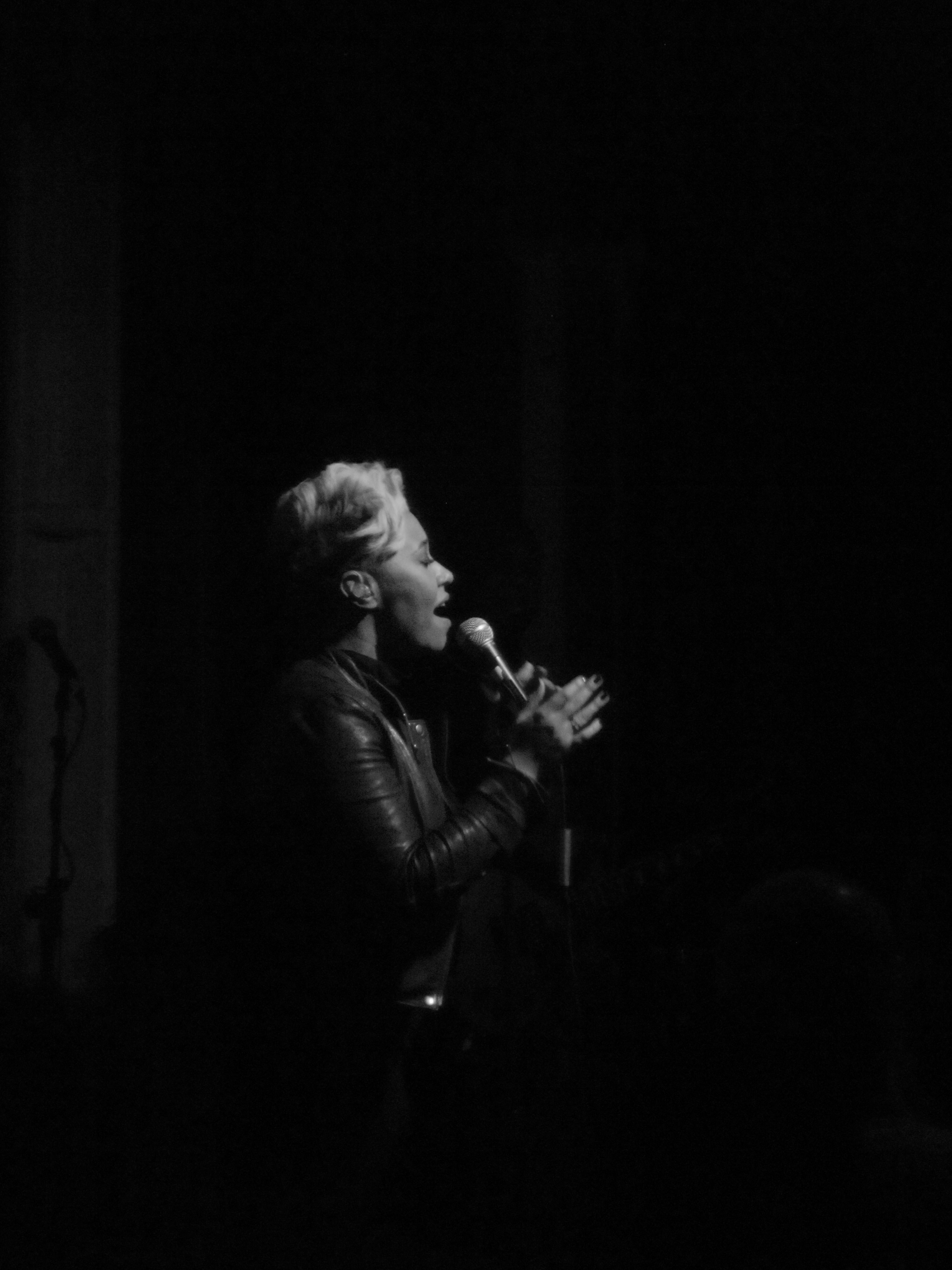 Picture of British Soul singer Emeli Sande performing at XOYO, London on 24th January, 2012.